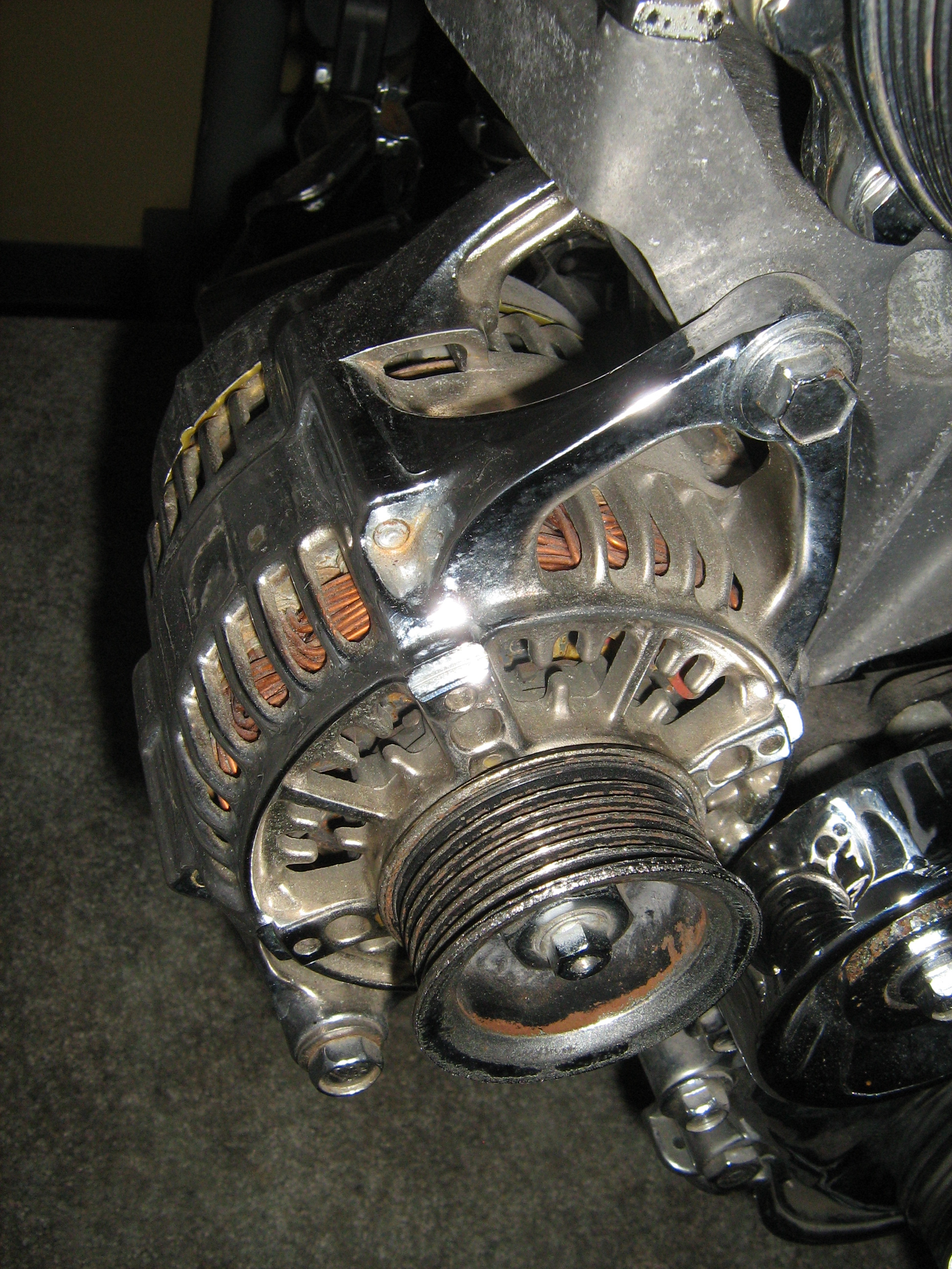 Jeep 2.5 liter 4-cylinder engine, chromed - close up of the alternator. This engine was developed by American Motors Corporation (AMC) and continued to be manufactured by Chrysler. All were built in Kenosha, Wisconsin.